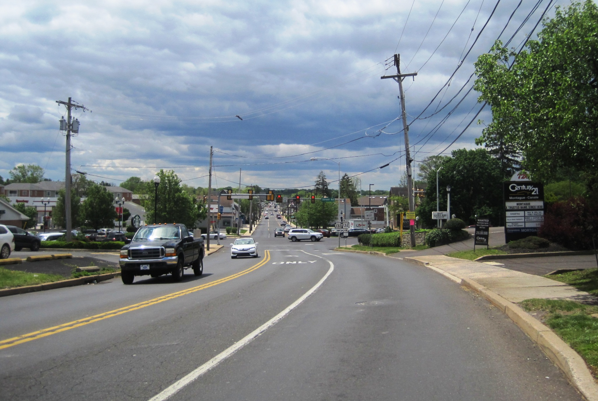 Photo showing Southampton, Pennsylvania, an unincorporated community within Upper Southampton Township, Bucks County. Photo was taken along southbound Second Street Pike (Pennsylvania Route 232) approaching Street Road (PA 132).